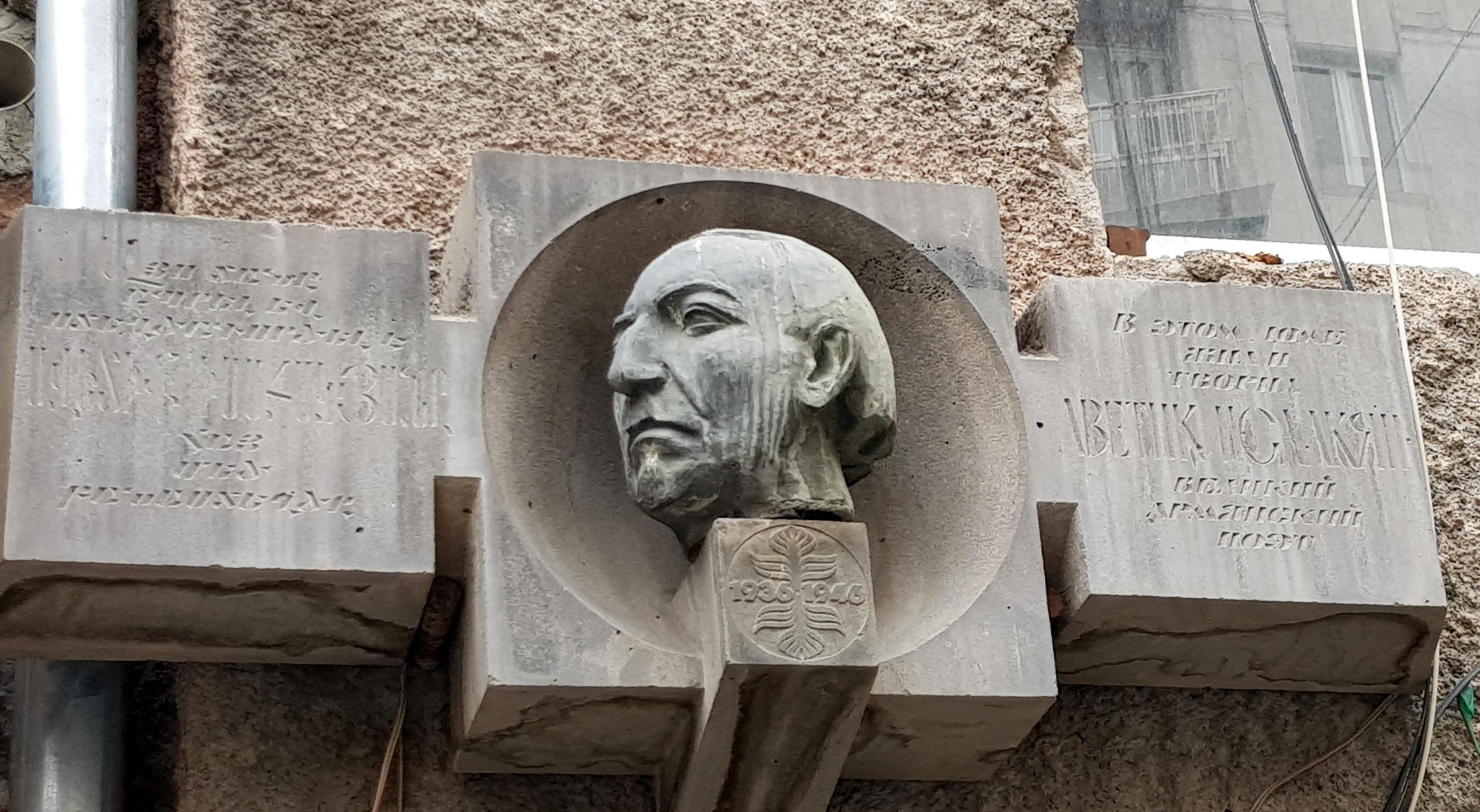 Avetik Isahakyan plaque on Parpetsi street of Yerevan on the building 12, where Isahakyan lived during 1936-1946